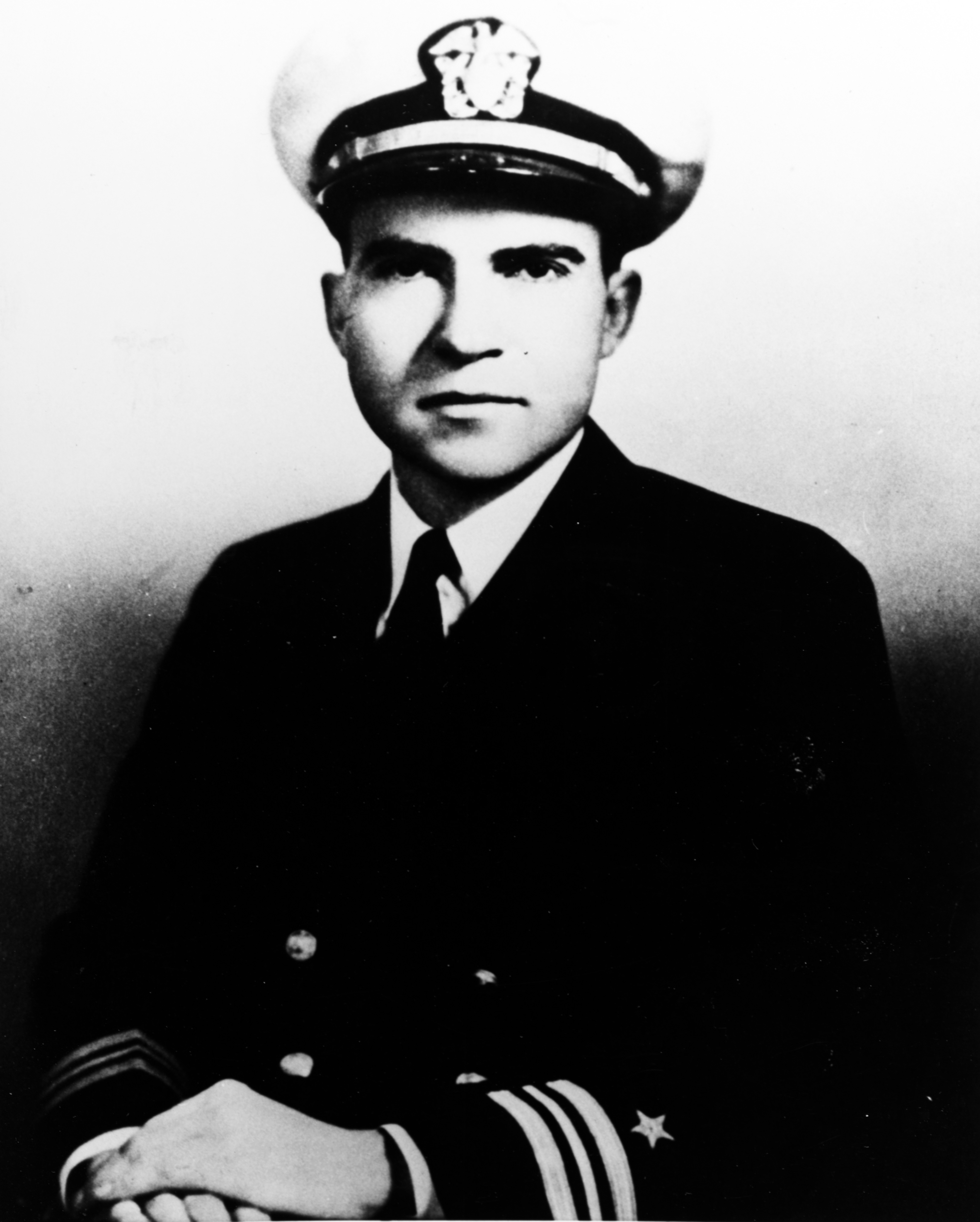 Lieutenant Commander Richard Milhous Nixon, USN